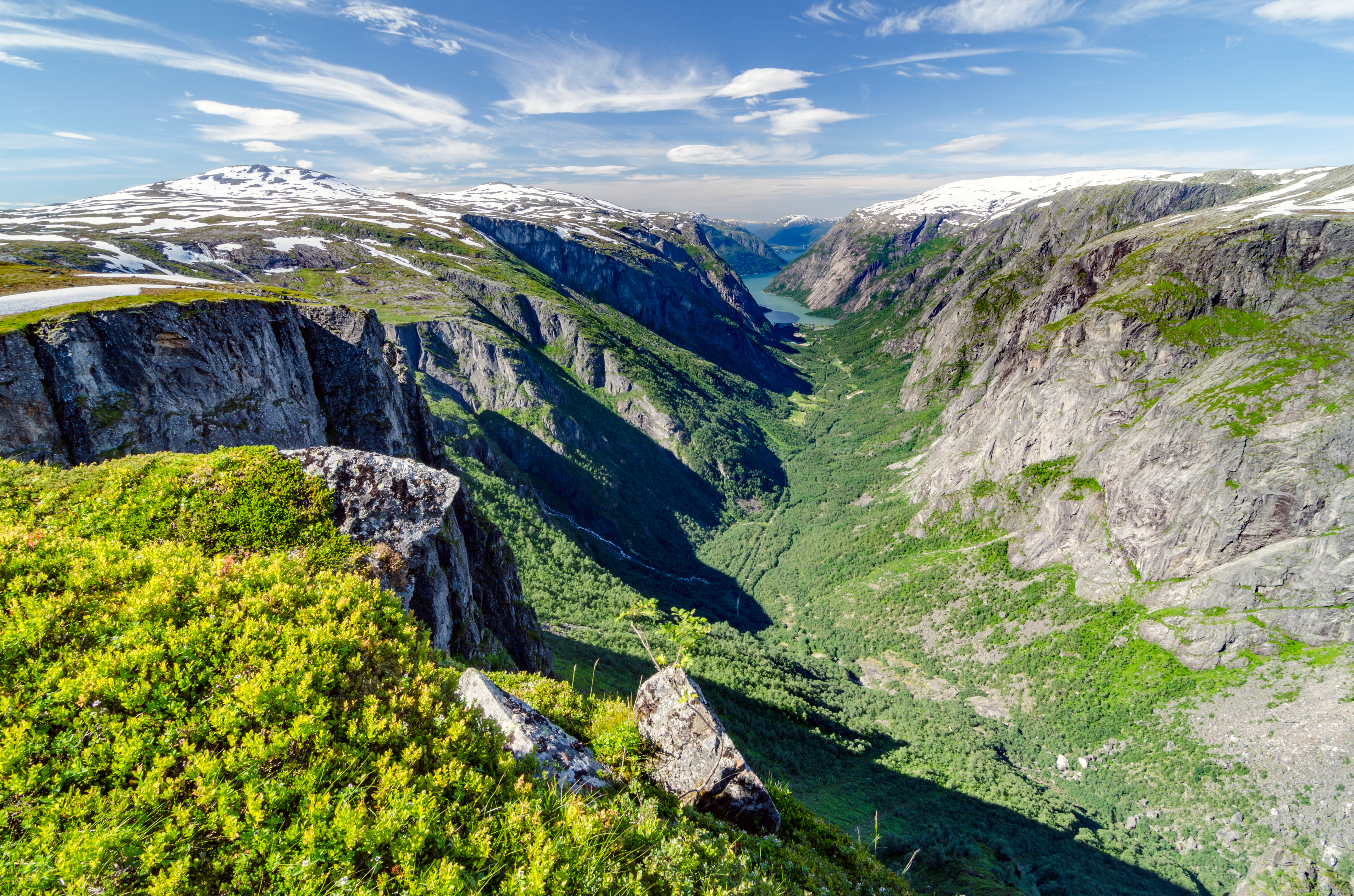 Hardangerfjord, Norway